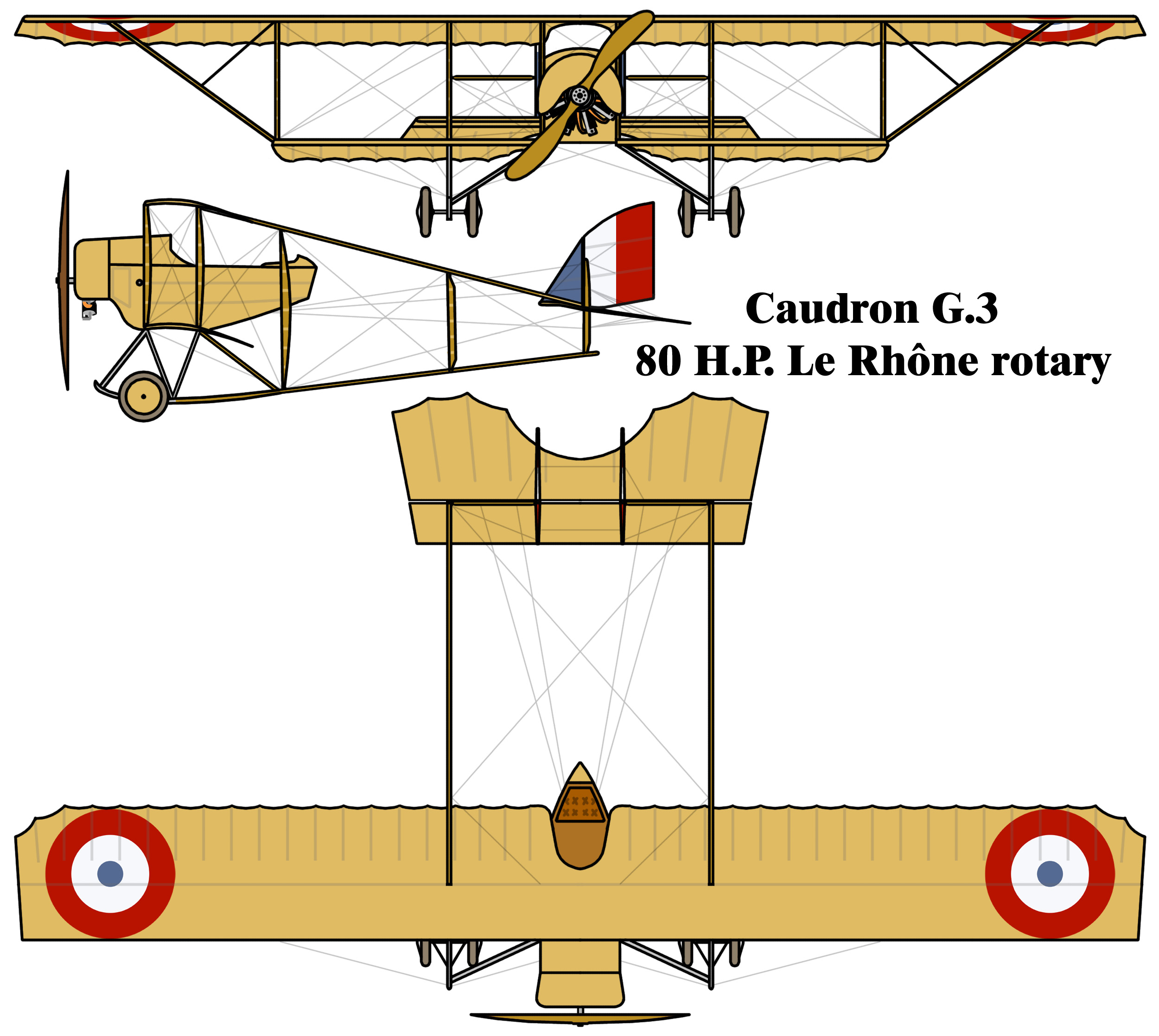 Caudron G.3 coloured drawing